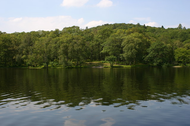 Inchtavannach, an island in Loch Lomond. Inchtavannach Bay View of Inchtavannach Bay Loch Lomond, the other side of Ardochlay